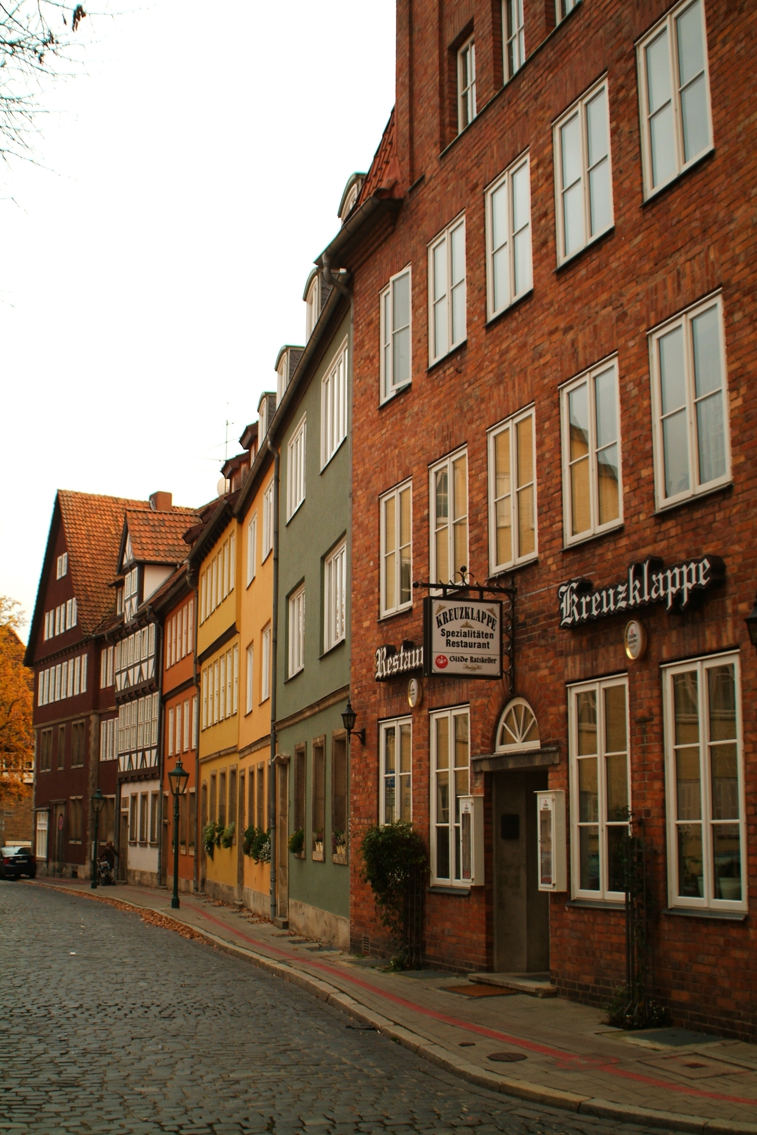 Hanover